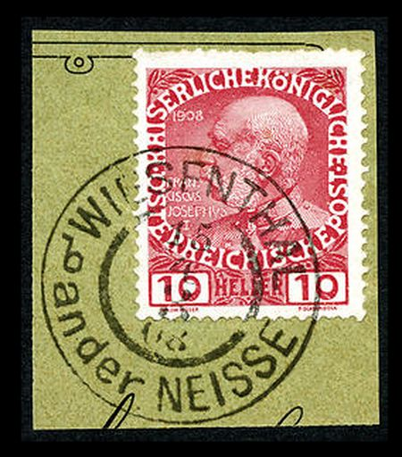 Austria Postage stamp, 1908 Jubilee issue, 10 heller on fragment, cancelled on 15-4-1908 hour 3 in WIESENTHAL (now Lučany nad Nisou) (Bohemia), Czech Republic.